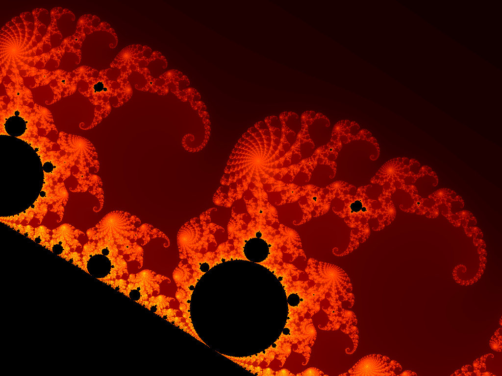 Closeup of the Mandelbrot set centred at (0.282, -0.01). Lower left is (0.278587, -0.012560) and upper right is (0.285413, -0.007440).